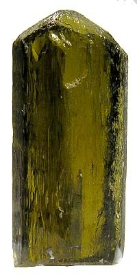 Enstatite Locality: Mogok, Pyin Oo Lwin District, Mandalay Division, Burma (Myanmar) (Locality at ) Wow! An incredible enstatite gem crystal of quality so high it looks like peridot! 2.4 x 1.0 x 0.8 cm